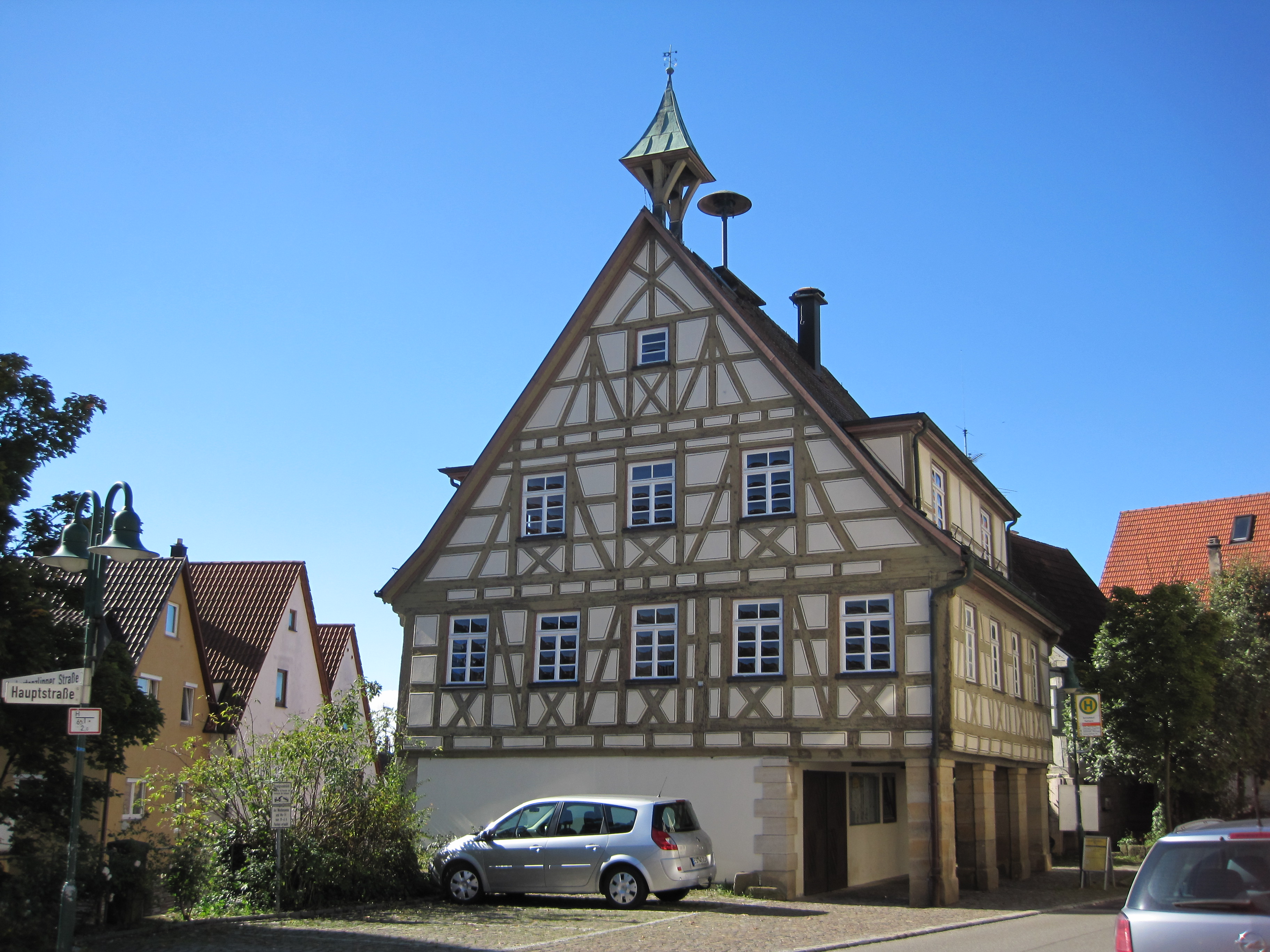 town hall Schlaitdorf, Germany